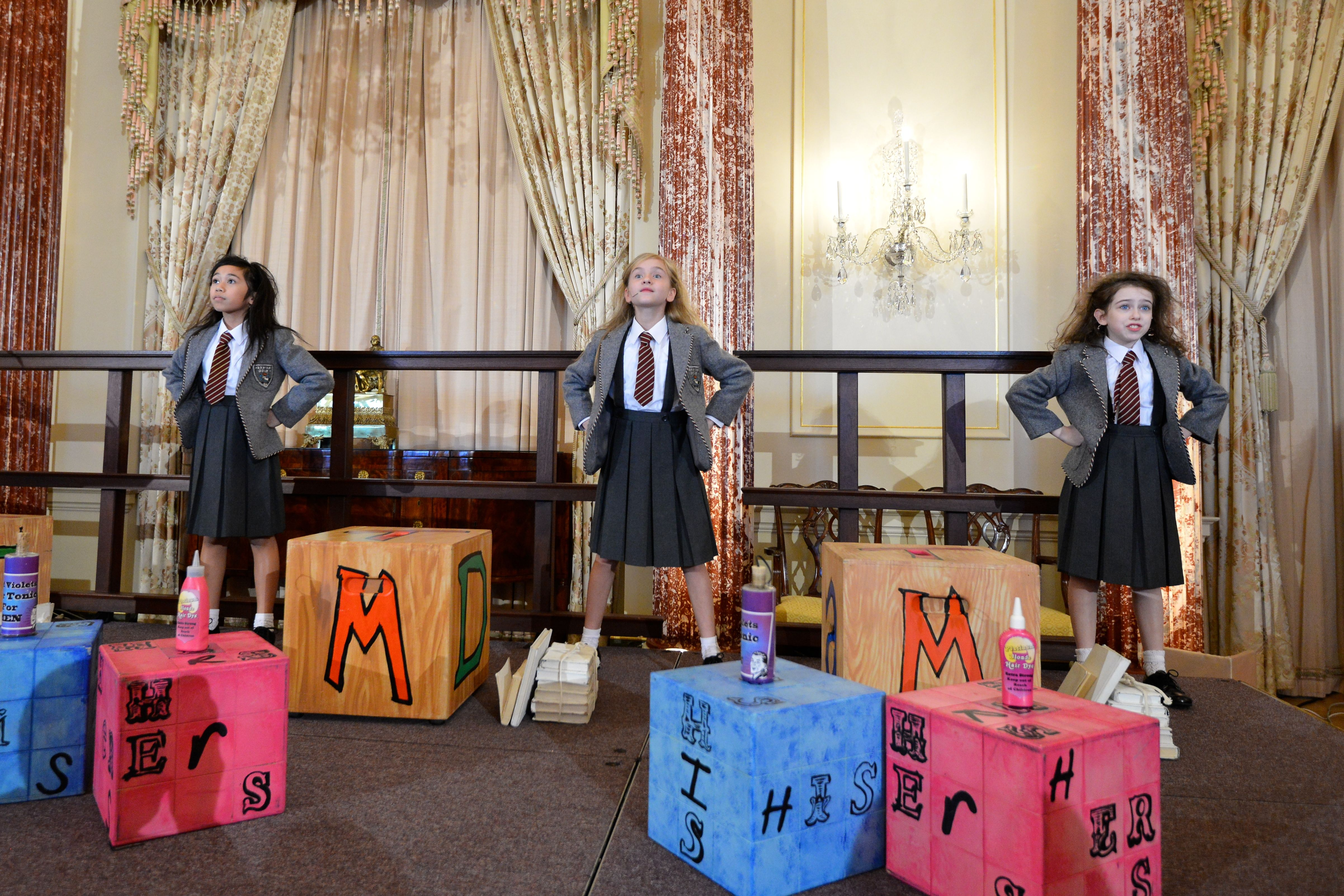 The cast of the Tony Award®-winning Broadway hit Matilda, the Musical, performs the popular song "Naughty," at the annual Unaccompanied Tours Holiday Reception at the U.S. Department of State in Washington, D.C., on December 16, 2015. The holiday reception honors the families of U.S. government employees on assignment at unaccompanied posts around the world, who endure long periods of separation from their loved ones, even at the holidays. [State Department photo/ Public Domain]